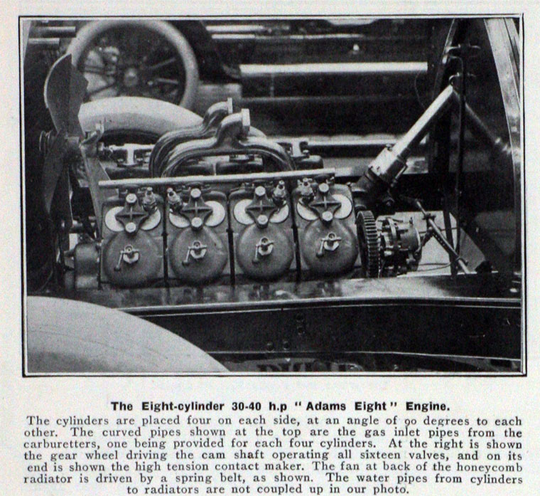 Very early V-8 engine: Adams 30-40 HP Eight (1907). This is a French Antoinette engine built under licence by the Adams Manufacturing Co.